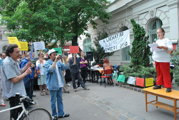 A 2010 protest against forced evictions and housing rights organized by Budapest based grassroots organization The City is for All at Bakáts tér, Budapest (Hungary)